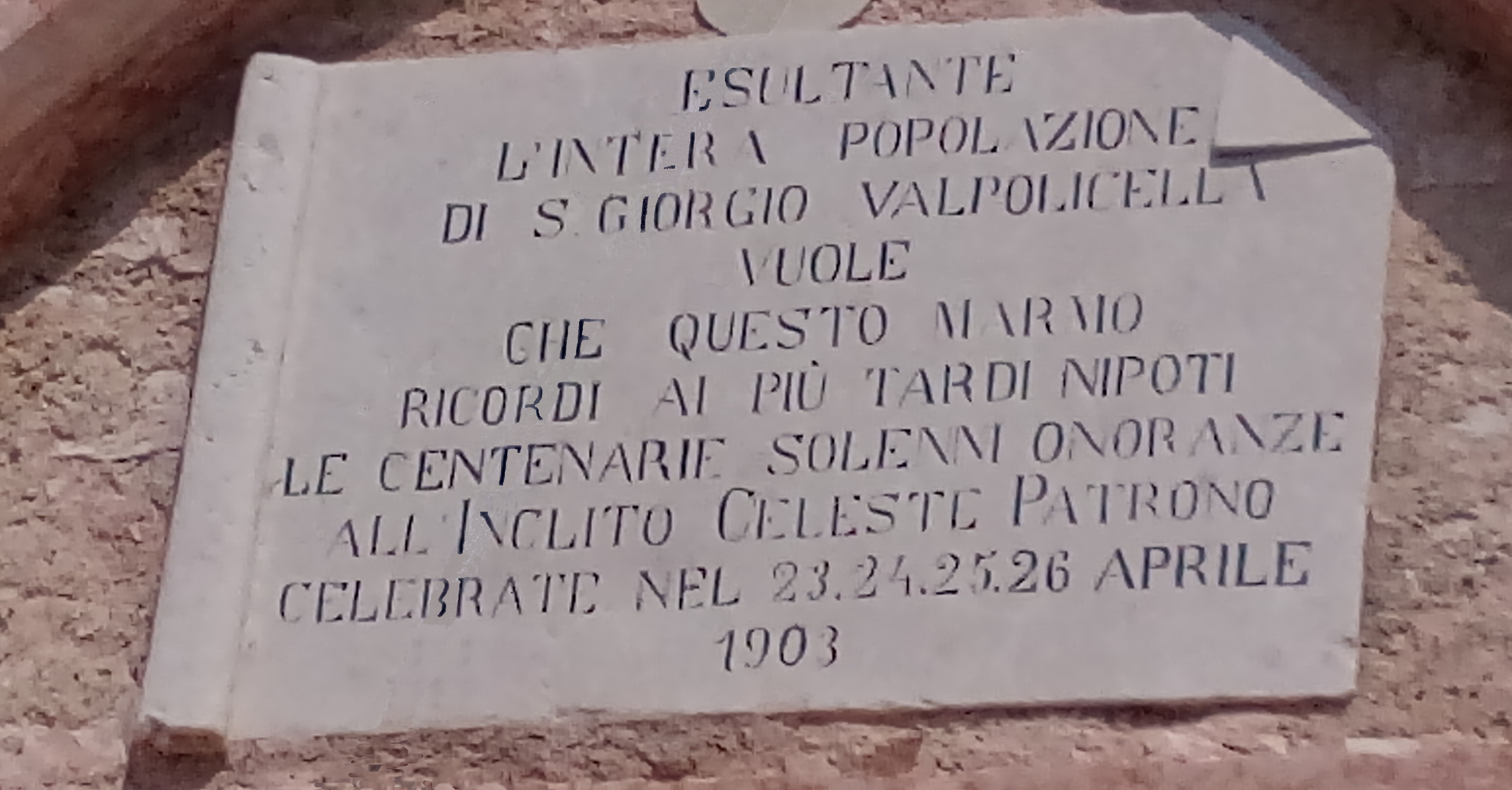 Targa pieve